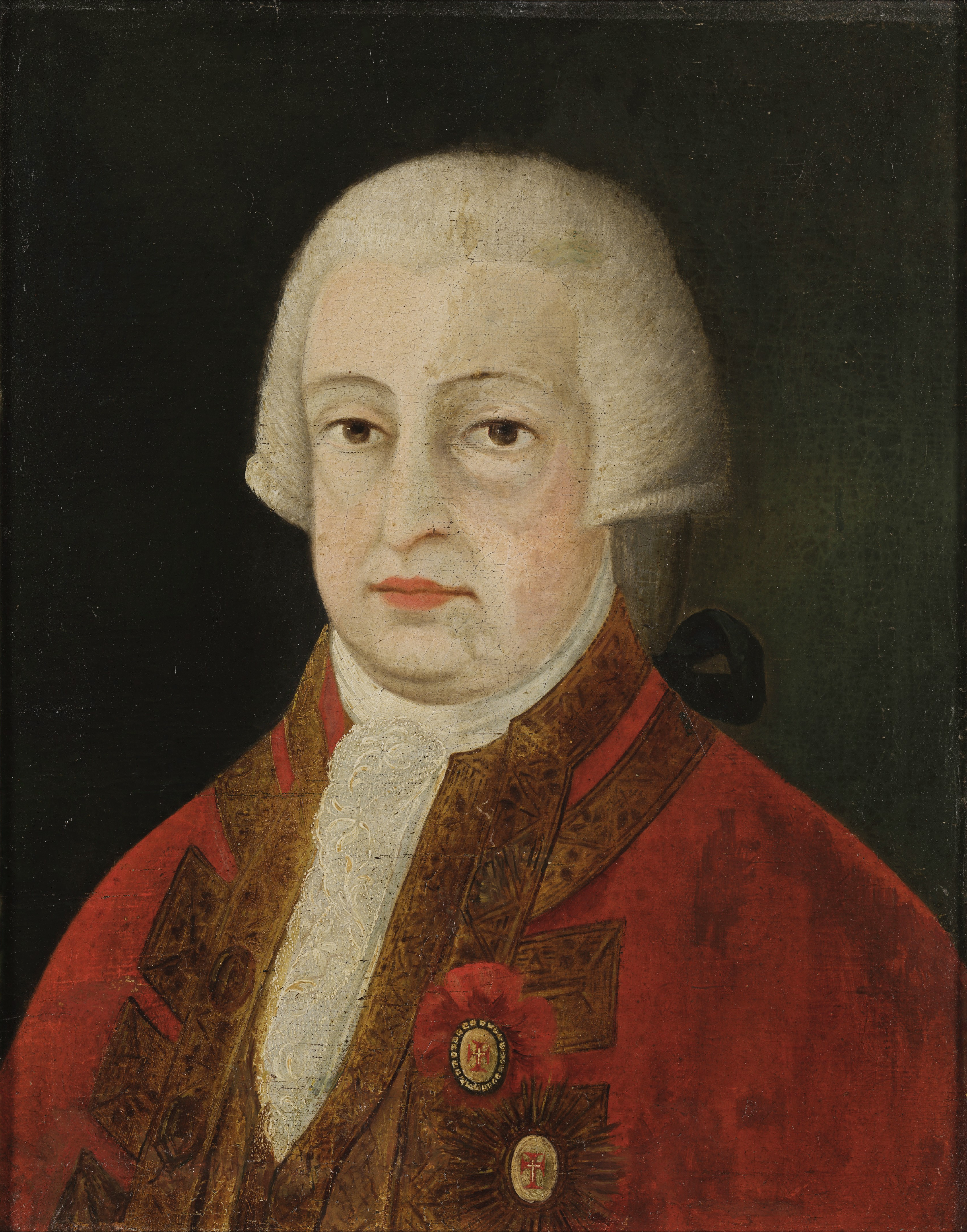 José Luís de Castro, 2nd Count of Resende (1744-1819). In the collections of the National Historical Museum, Rio de Janeiro, Brazil.